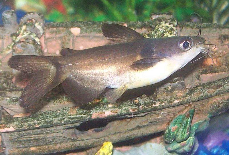 Unidentified Horabagrus catfish